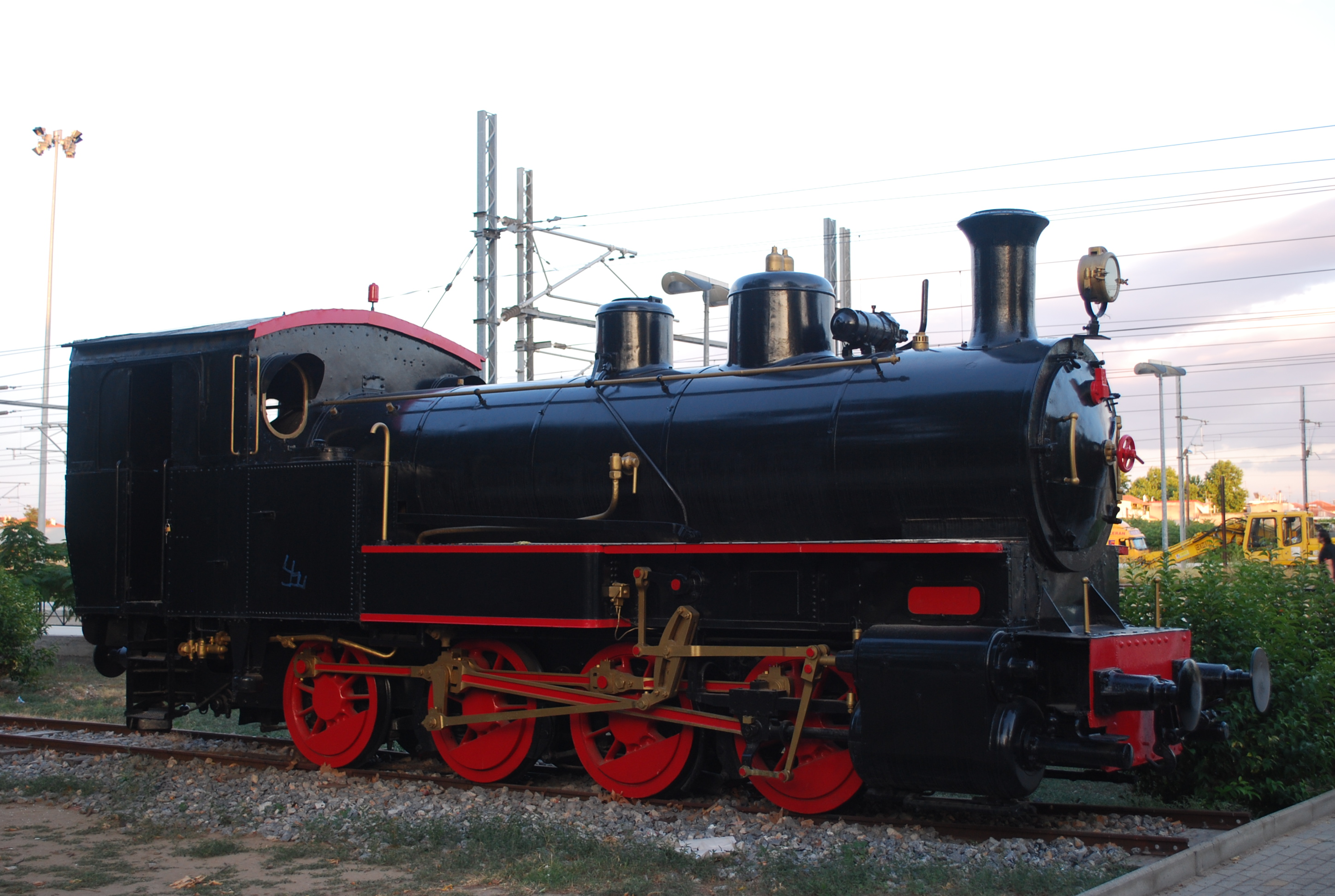 Thessalian Railway, meter gauge steam locomotive 54 at Larissa station. Originally built 1911 by SLM Winterthur (works n° 2171) for Yverdon–Ste-Croix in Switzerland as G 4/4 4 "Aliénor". Sold to Thessalian Railway in 1947 after electrification.